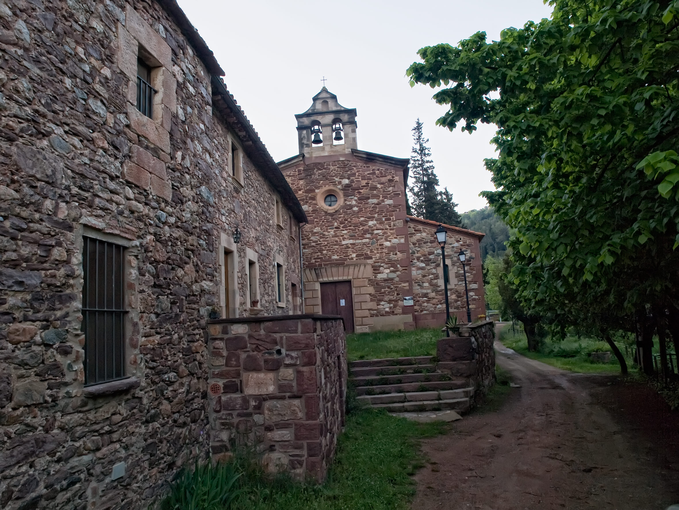 Santa Eugenia Church (Catalonia, pain)